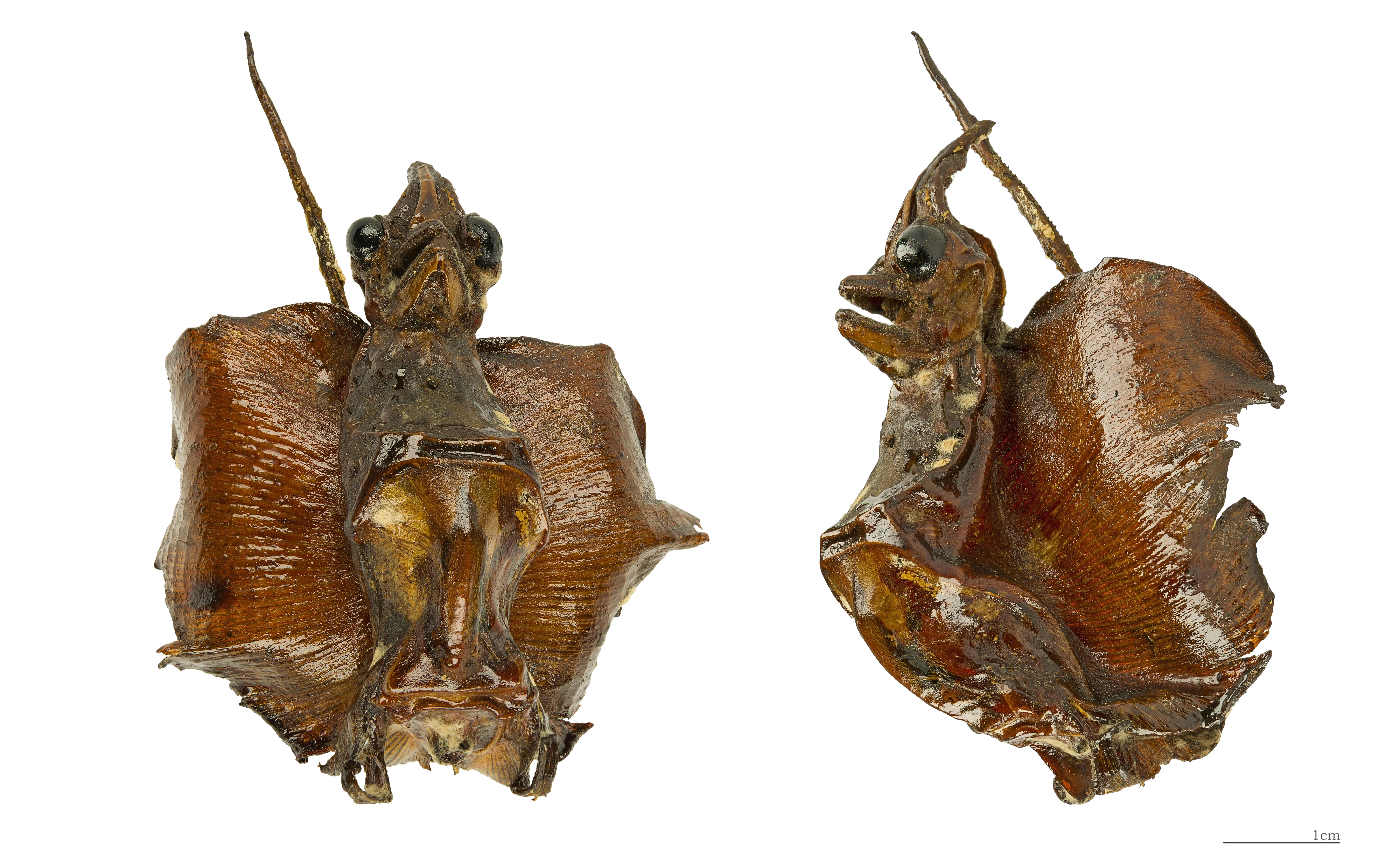 "Jenny Haniver " little dragon form. Former Jules Berdoulat collection. Obtained from one Guitarfish - Two views of same specimen.You actually see a stingray. 18-th century sailors, especially Dutch, were masters to transform this stuffed fishes, they sold as evidence of the existence of sea monsters. This specimen dates from this period. It owes its preservation to the multiple layers of varnish. This fraud continues even today, with android forms (see article quoted above). The "Little Dragon" form is extremely clever and very difficult to do. Human imagination has no limit.